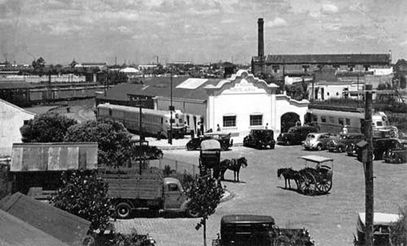 Puente Alsina train station.